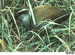 from US Fish and Wildlife Guam Rail (Gallirallus owstoni)